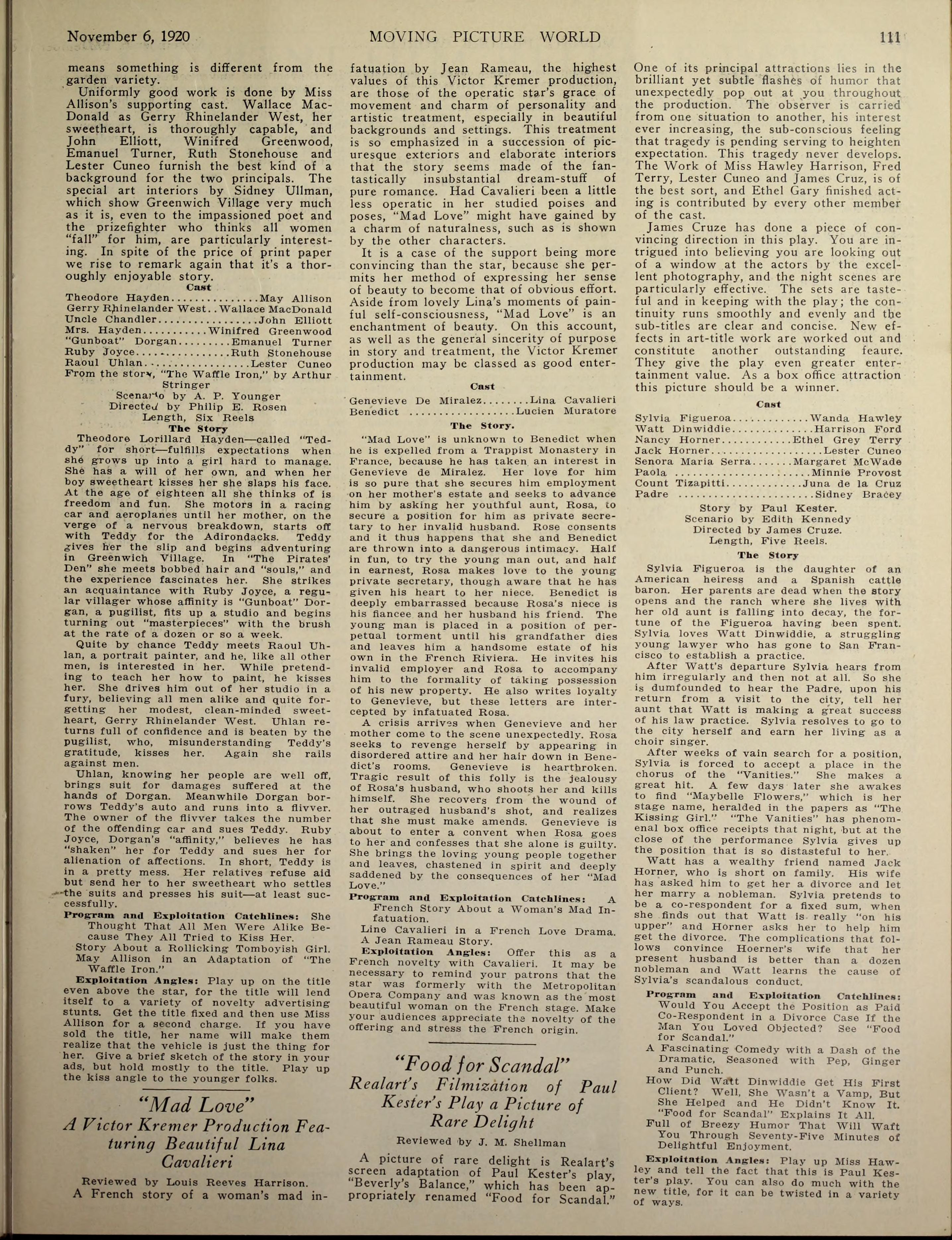 Minnie Provost as Paola, a review of the film Food for Scandal (1920) by J.M. Shellman.